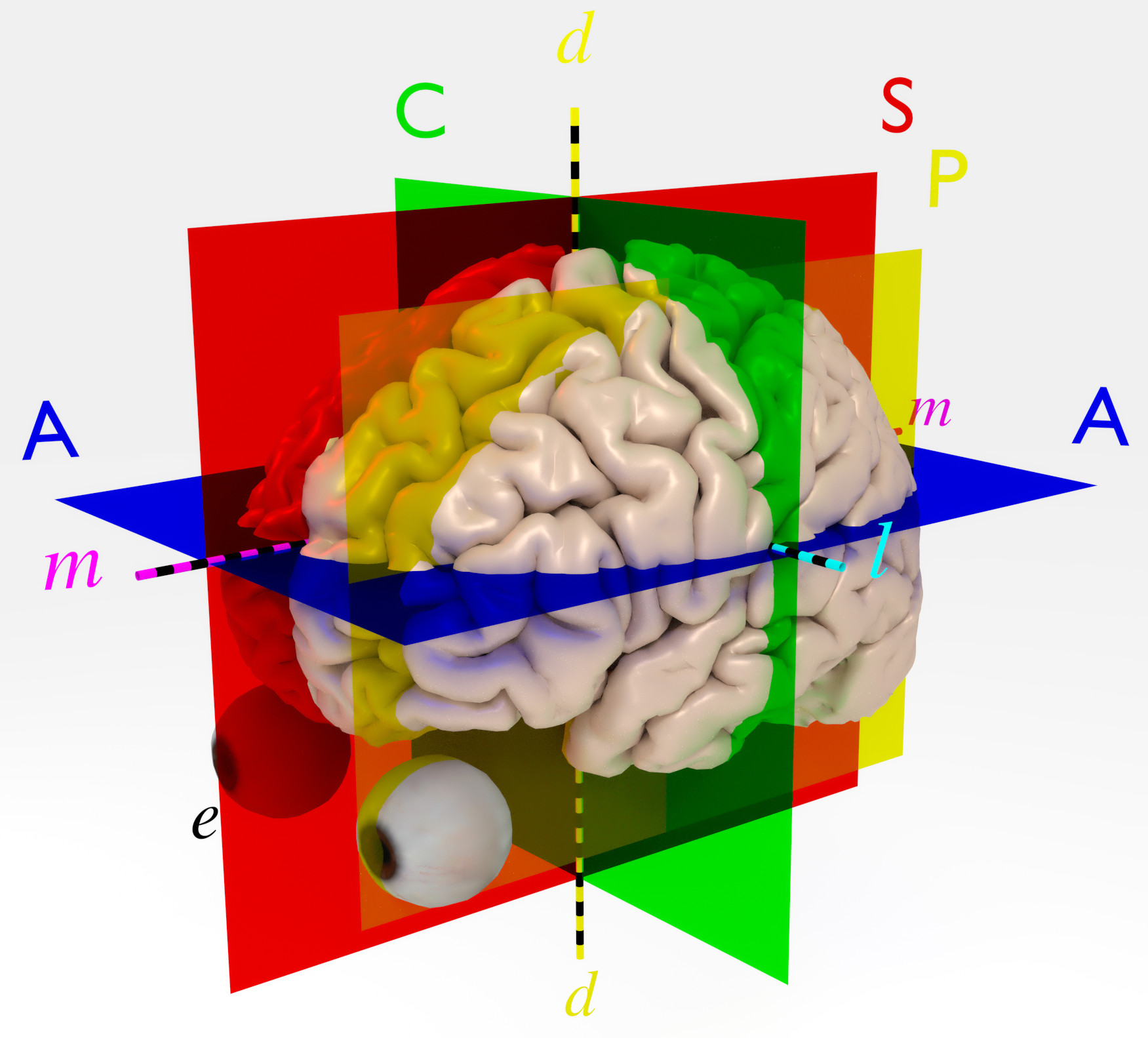 Planes, axes, and localisations in the human brain The figure shows three axes annotated as follows: d: Dorsoventral or Axial axis (yellow) l: Left-right, or lateral axis (cyan, blue-green) m: Medial or anterior-posterior axis (magenta) The figure shows three major planes annotated as follows: a: Axial or horizontal plane (blue), that contains the lateral axis and also the medial axis c: Coronal plane (green), containing the axial axis and the lateral axis s: Sagittal plane (red), containing the axial axis and the medial axis There also is: e: The eye position showing the anterior end of the brain p: an example of a parasagittal plane (yellow); parasagittal planes comprise the class of planes parallel to (and therefore lateral to) the sagittal plane. .